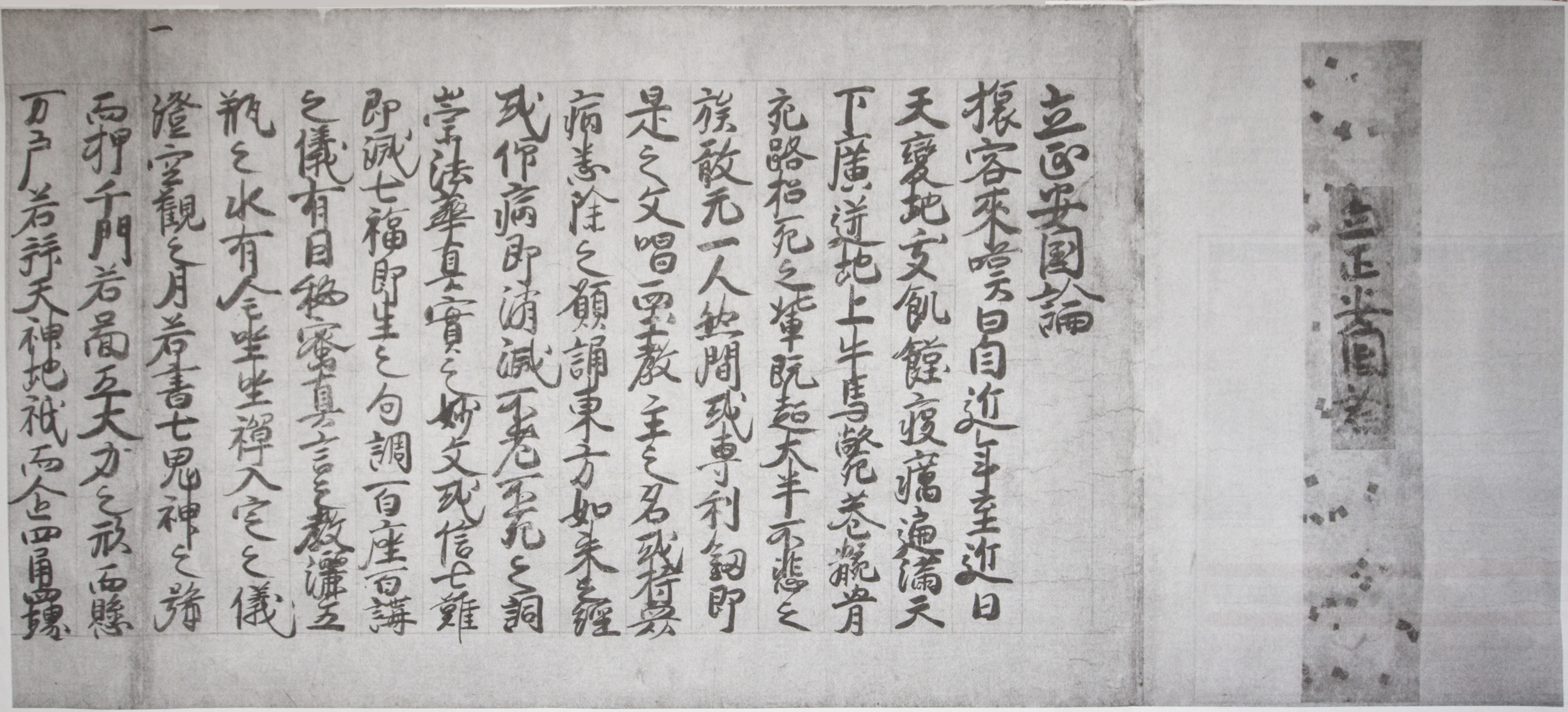 Risshō Ankokuron, a Treasure of Japan, Nakayama Hokekyō-ji, Chiba, Japan. This section is from a 16 m scroll including a strip with the title (立正安国論) that becomes the title of the scroll when it is rolled up